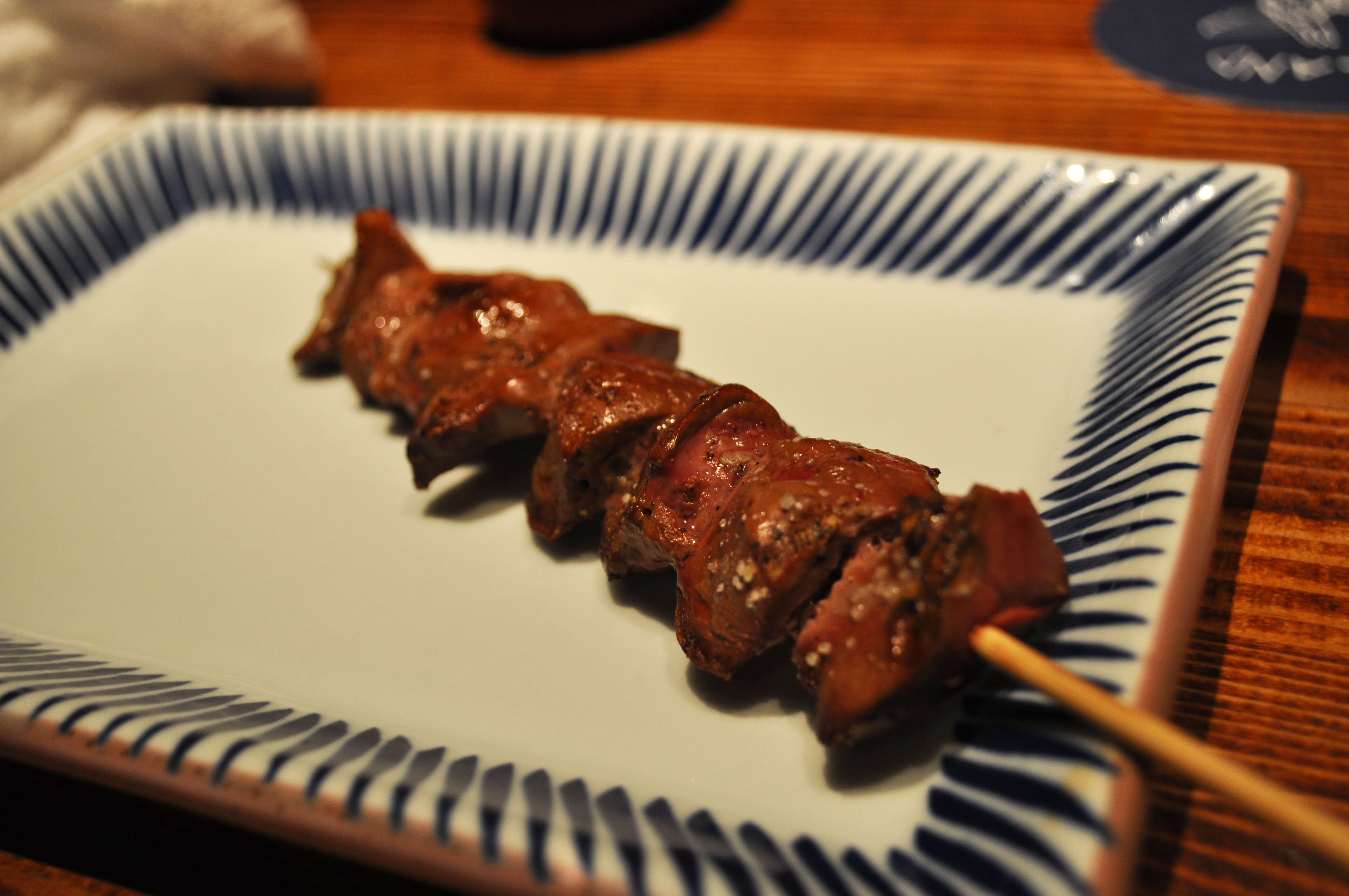 Chicken liver yakitori